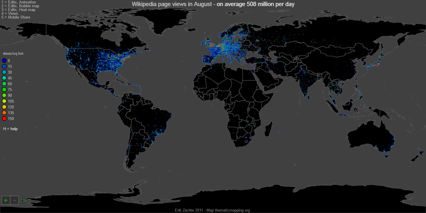 Page views of all language versions of Wikipedia combined in August 2011 by location on a world map. Graphics by Erik Zachte, Wikimedia Foundation.